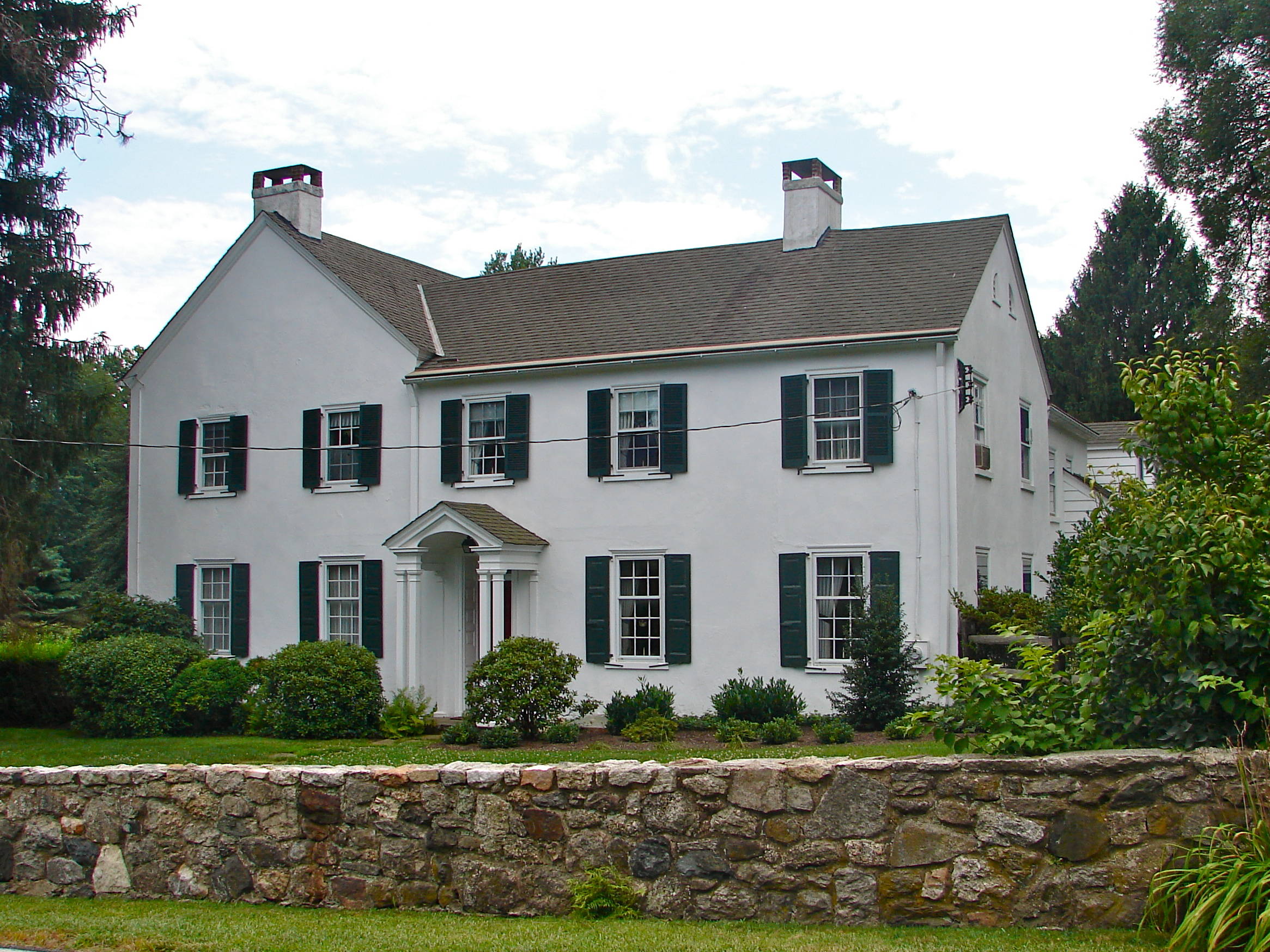 Cloud-Reese House on the NRHP since August 17, 2001. At 2202 Old Kennett Rd., sort of near Wilmington, Delaware. About 100 yards south of the Pennsylvania-Delaware border, near Centreville, DE or maybe Kennett Square, PA A very old farmhouse rebuilt for a DuPont exec about 1900. View from the road